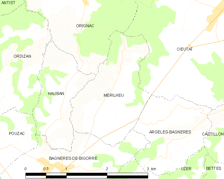 Map of French municipality